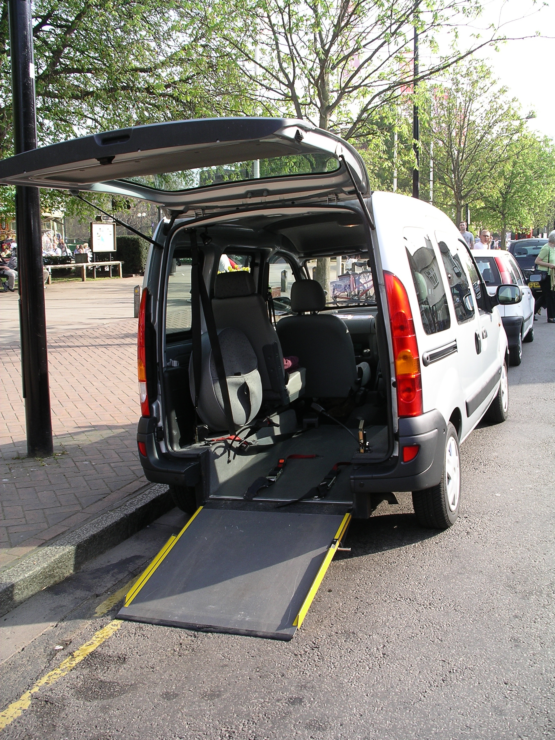 Photo taken by me of a Renault Kangoo I car that is able to carry a wheel chair. Note fold down ramp.